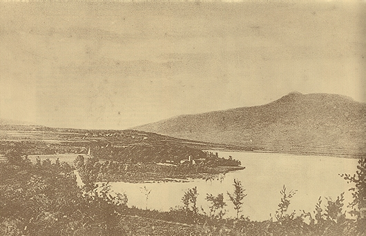 Čepić lake in the end of 19th, or early 20th century, in Istria, Croatia. The lake is non-existent as was drained in 1932.